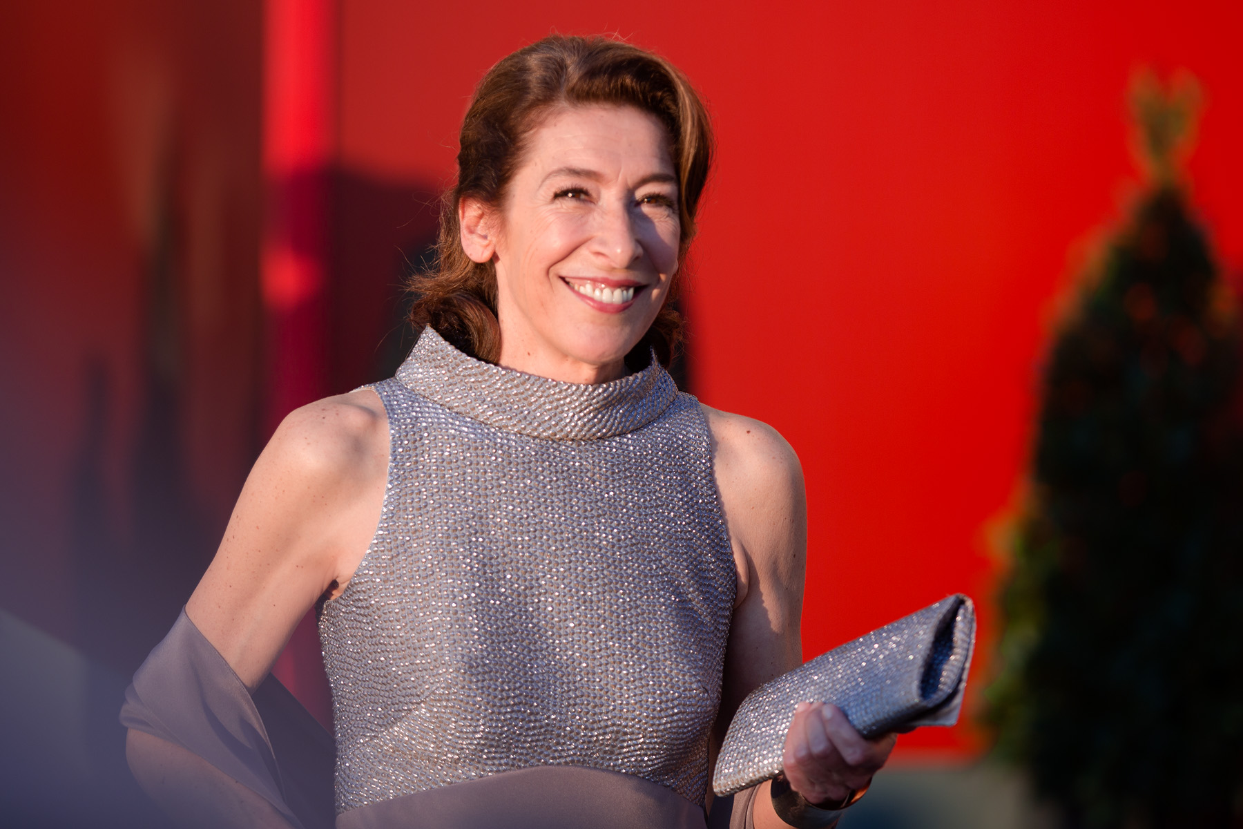 Adele Neuhauser on the red carpet of the Romy TV awards 2016 at Hofburg Palace in Vienna, Austria.